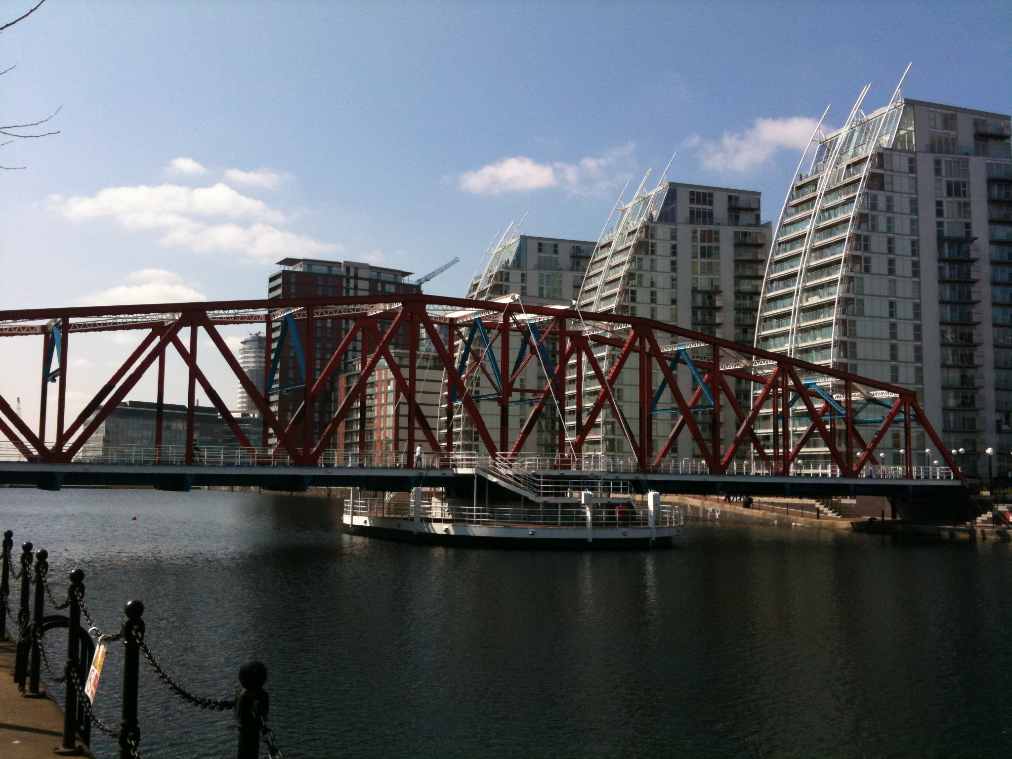 Detroit Bridge, Salford Quays